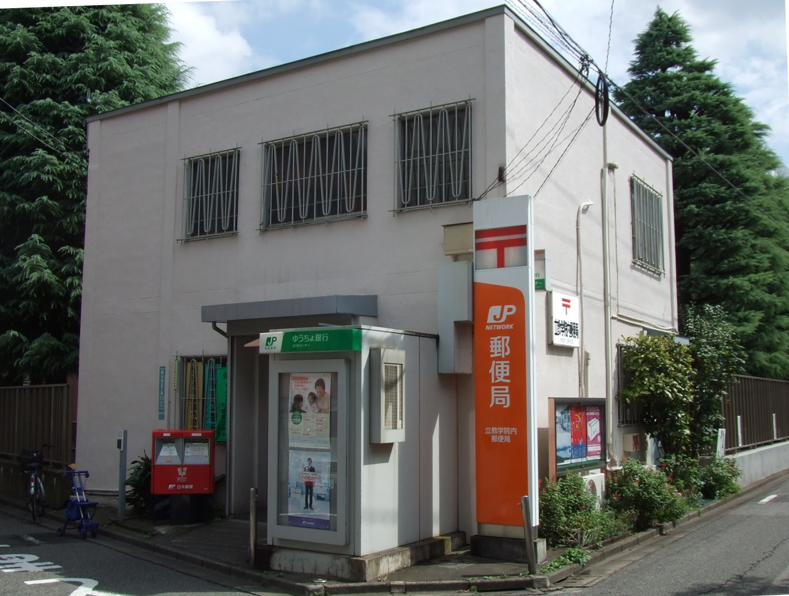 Rikkyo Gakuin Nai Post Office,Nishi-Ikebukuro,Toshima-ku,Tokyo,Japan